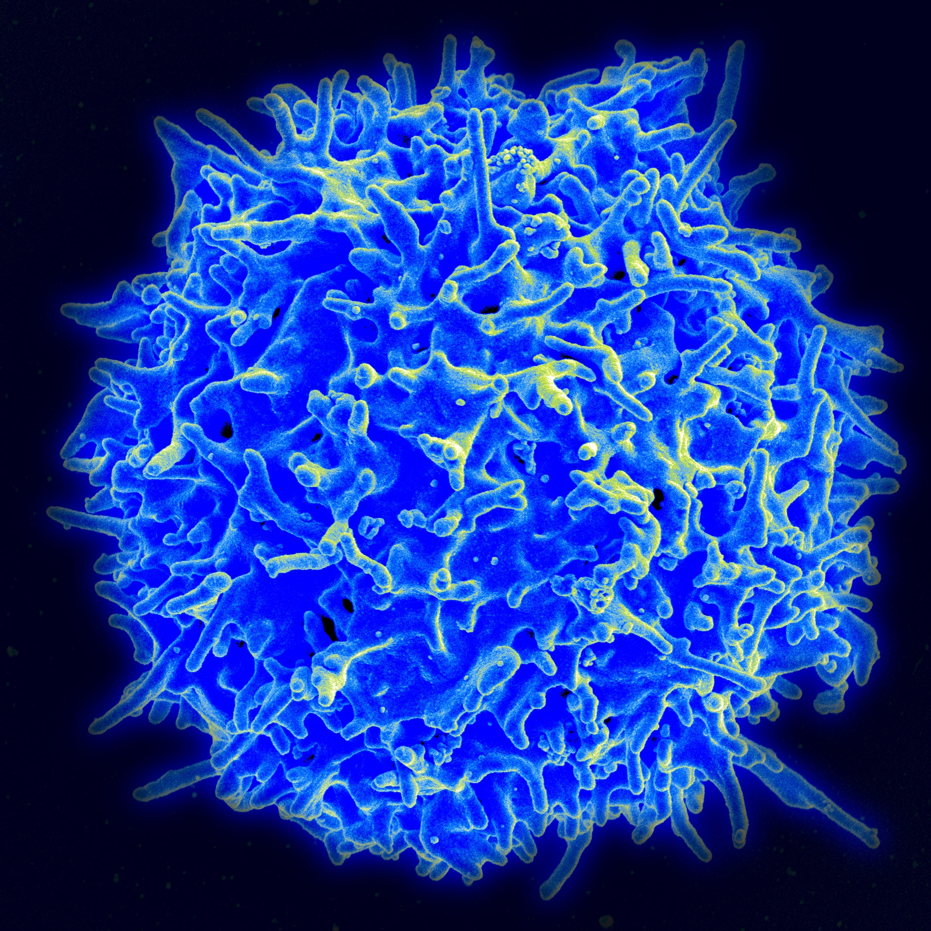 Scanning electron micrograph of a human T lymphocyte (also called a T cell) from the immune system of a healthy donor. Credit: NIAID